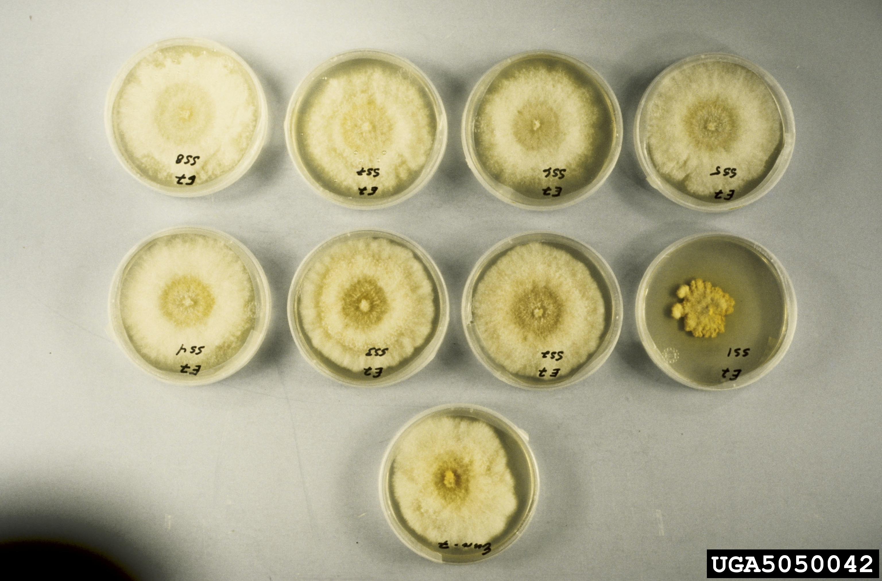 Cultures of chestnut blight cankers with a hypovirulent strain of the pathogen. Cryphonectria parasitica.